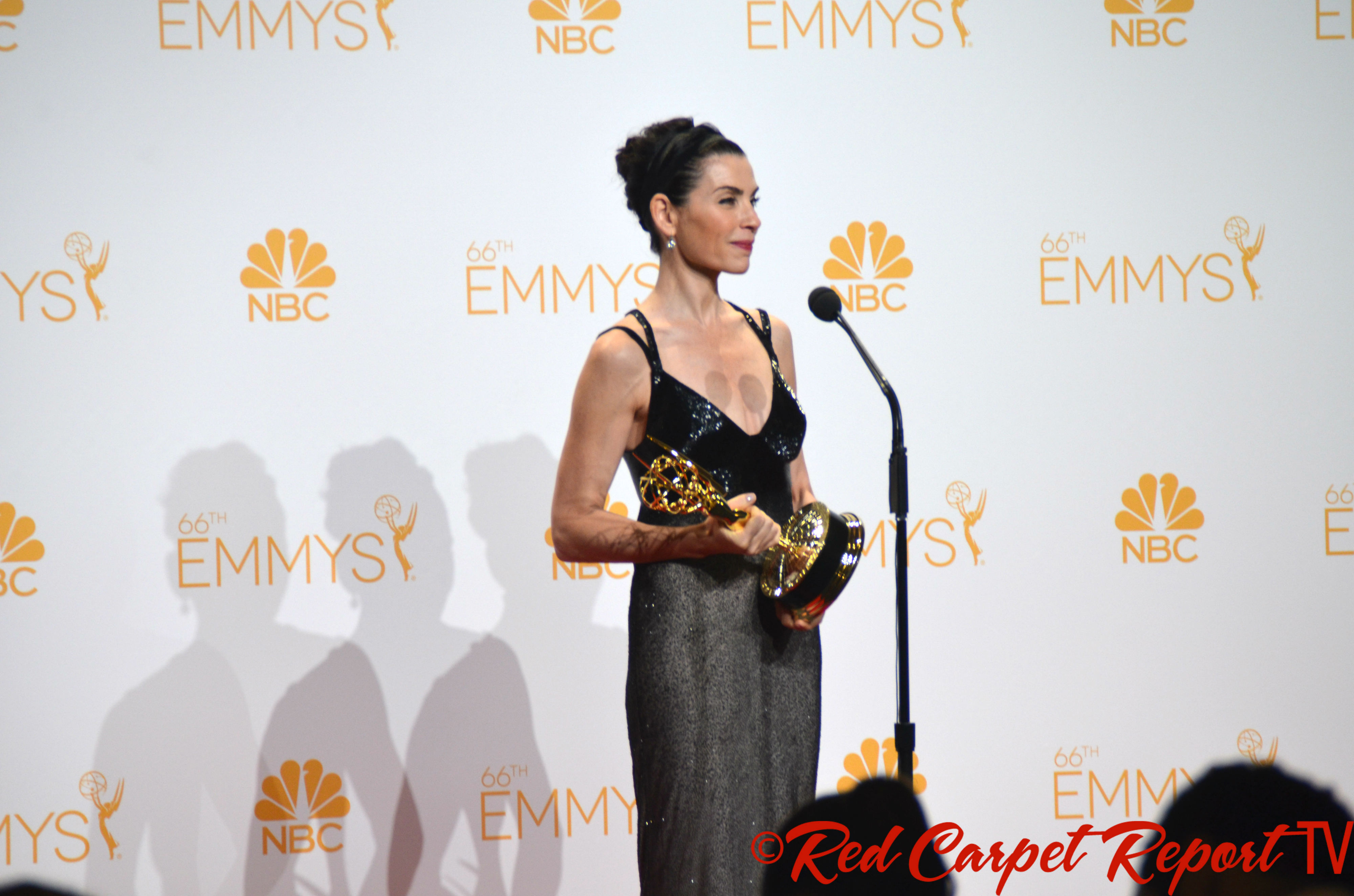 Actress Julianna Margulies at the 66th Emmy® Awards Media Press Room to Interview Winners at the Nokia Theater at LA LIVE on September 22, 2014.